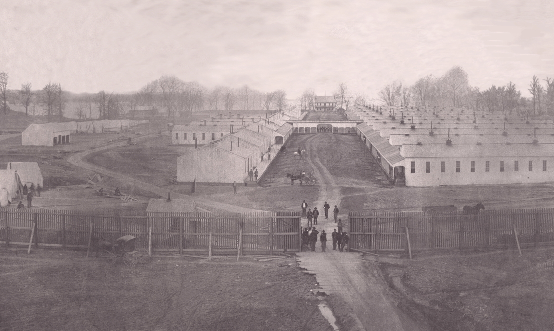 Camp Joe Holt - 1862 (Ohio River in background)